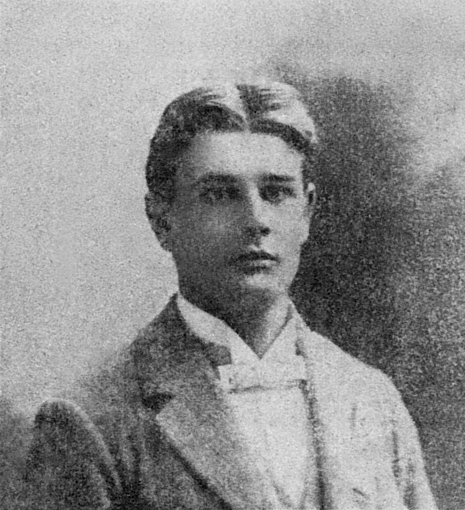 Dr William C. Hobdy, head of the U.S. Quarantine Service